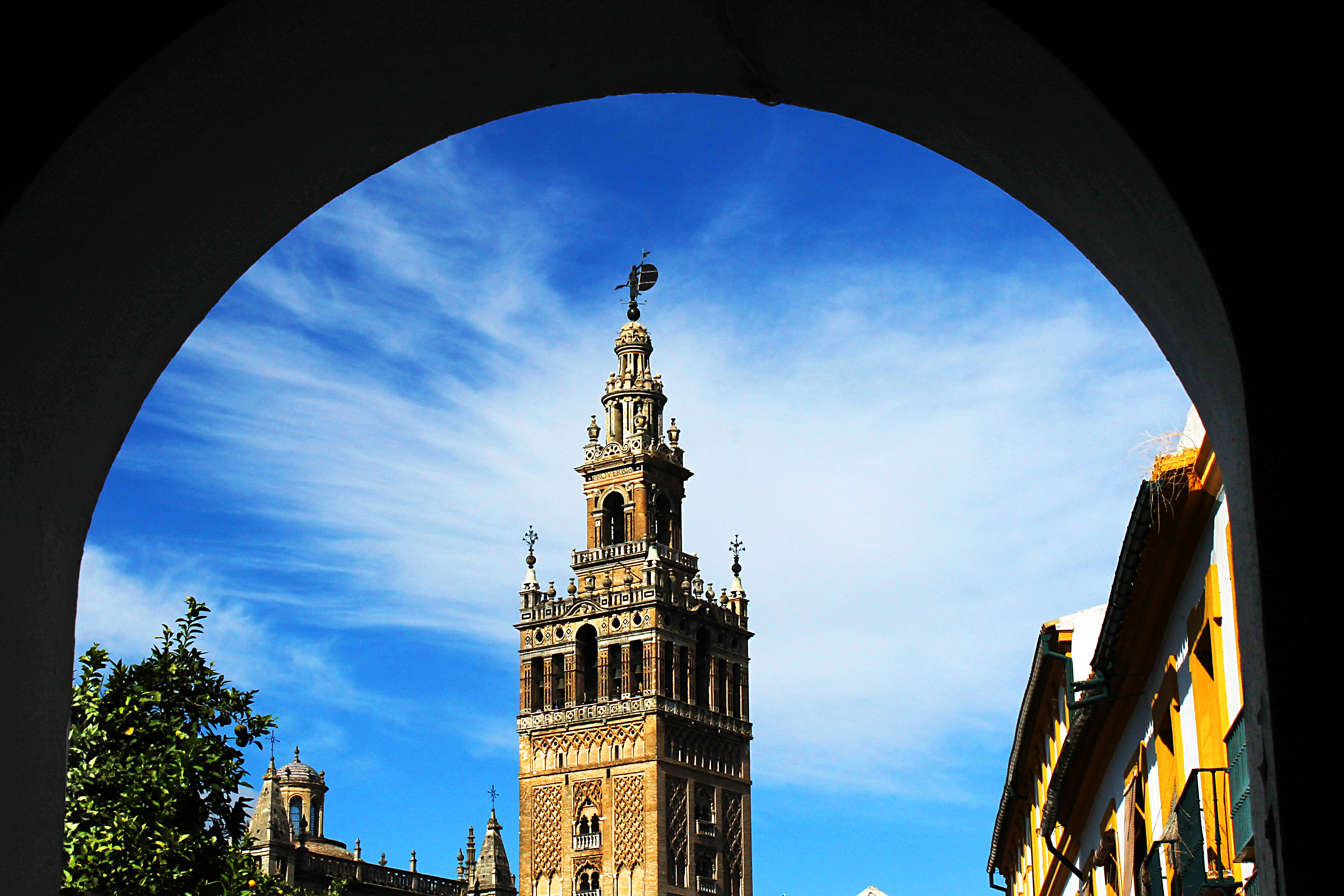 giralda desde barrio s.ta cruz en Sevilla